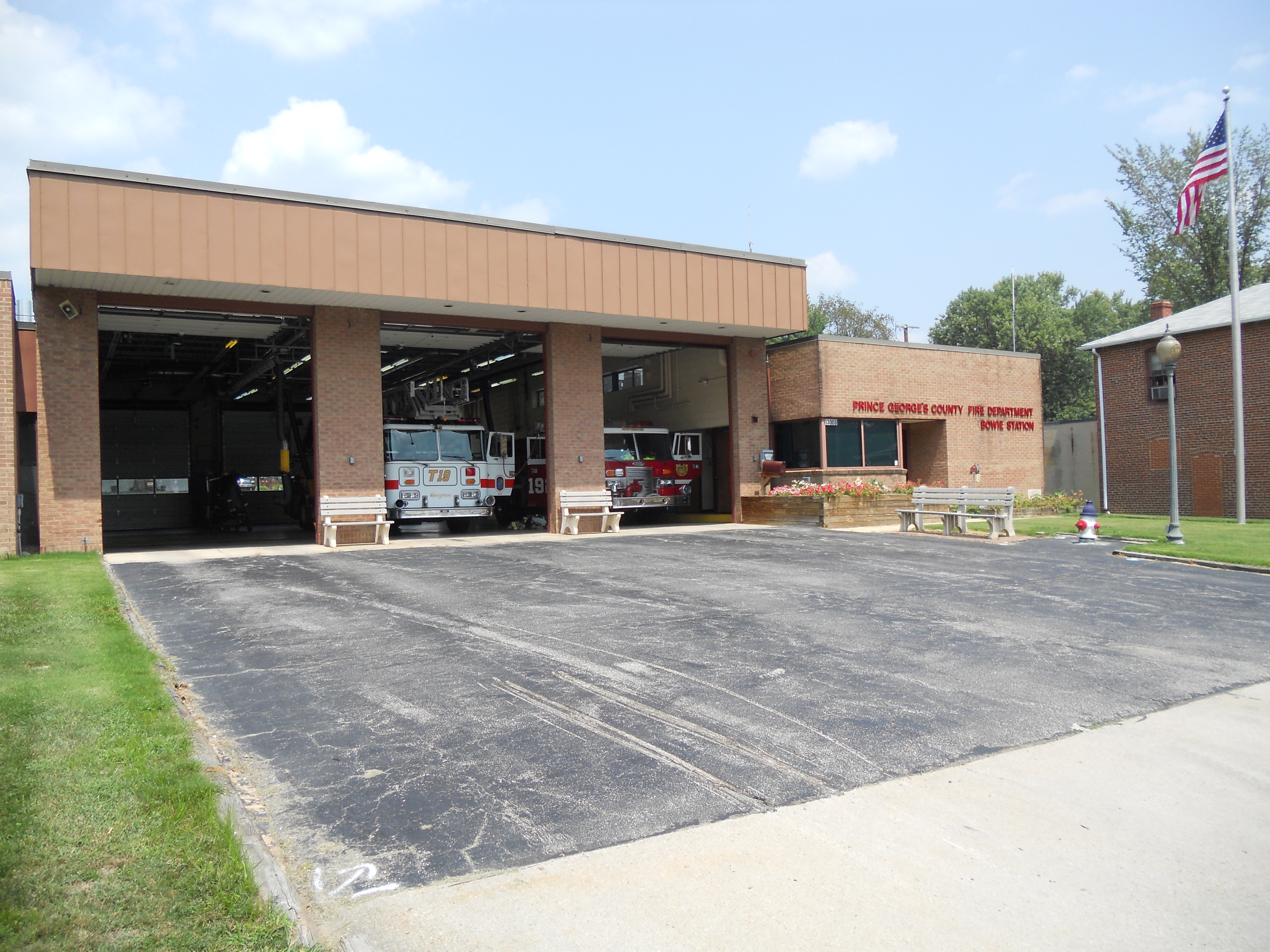 Station